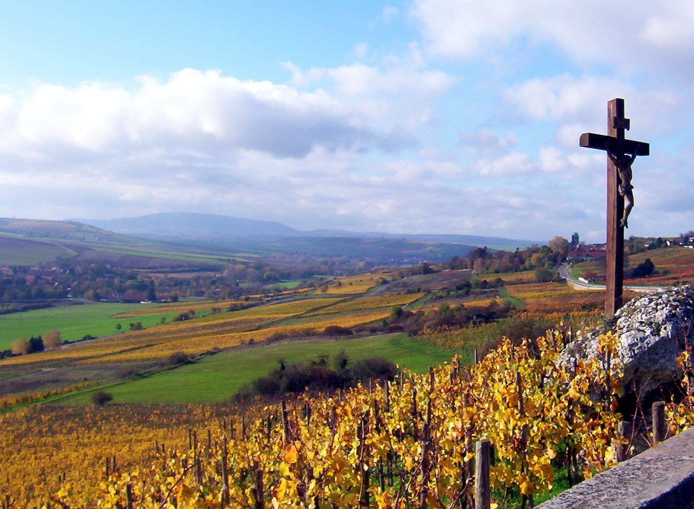 Germany / Rhine Hesse: autumn in the valley "Zellertal"